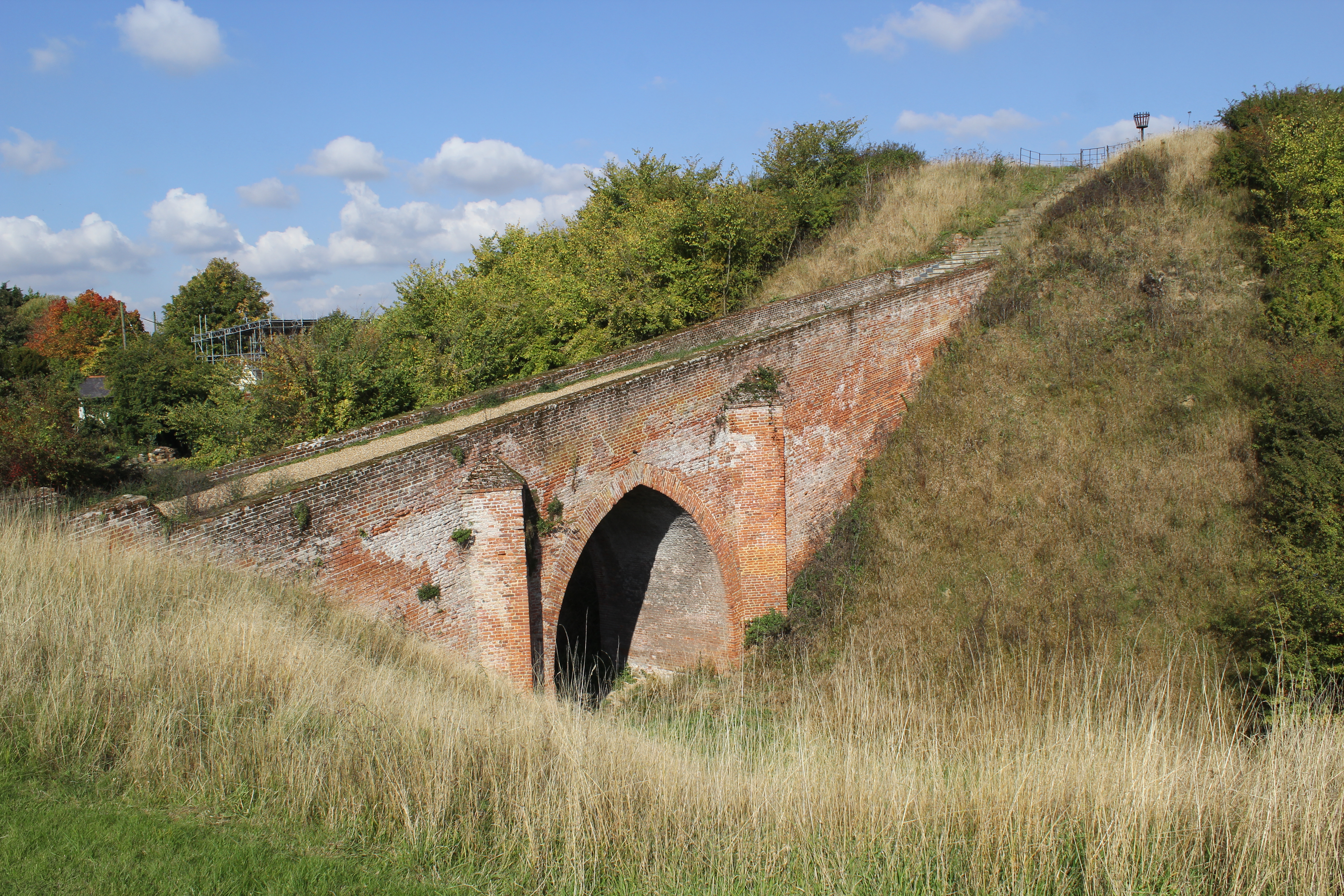 Pleshey Castle's 15th-century brick bridge spanning the inner moat between the motte and the southern bailey. This file was generated using WMUK's equipment.